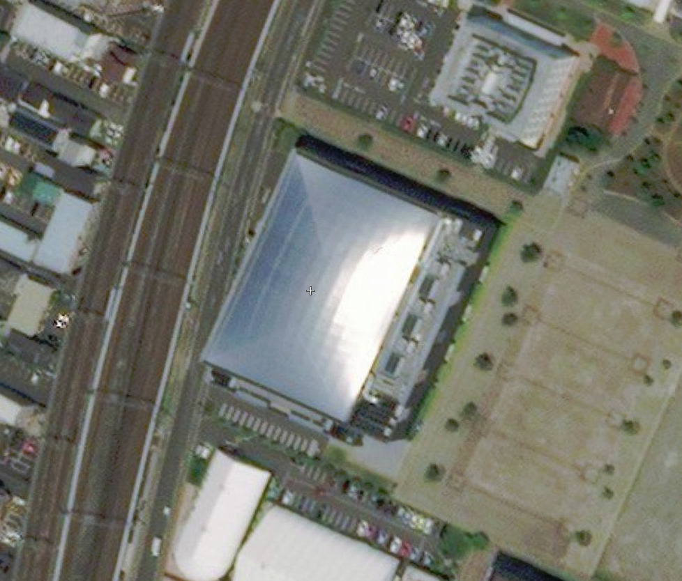 Xebio Arena Sendai